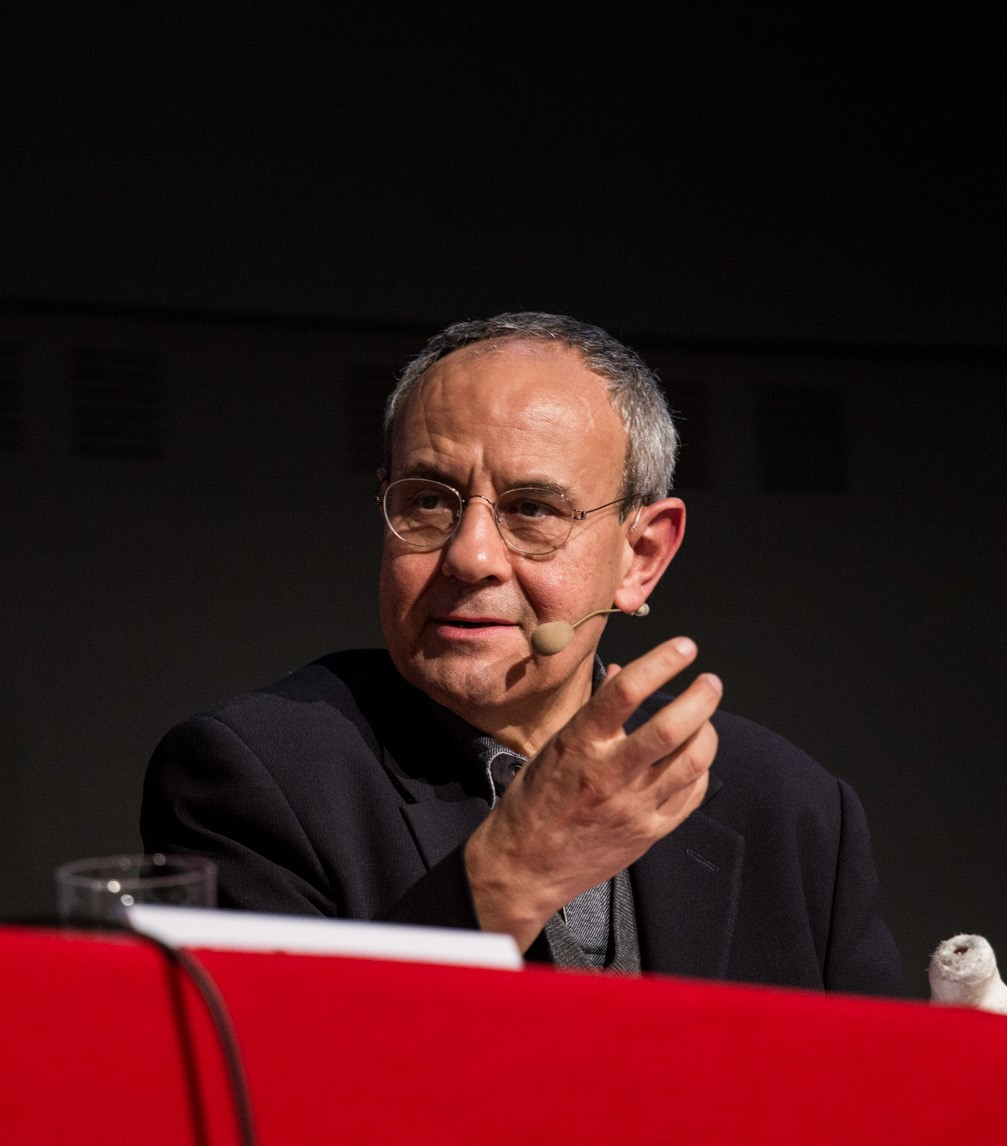 Julián Carrón during a conference in Padua on 24 February 2016.